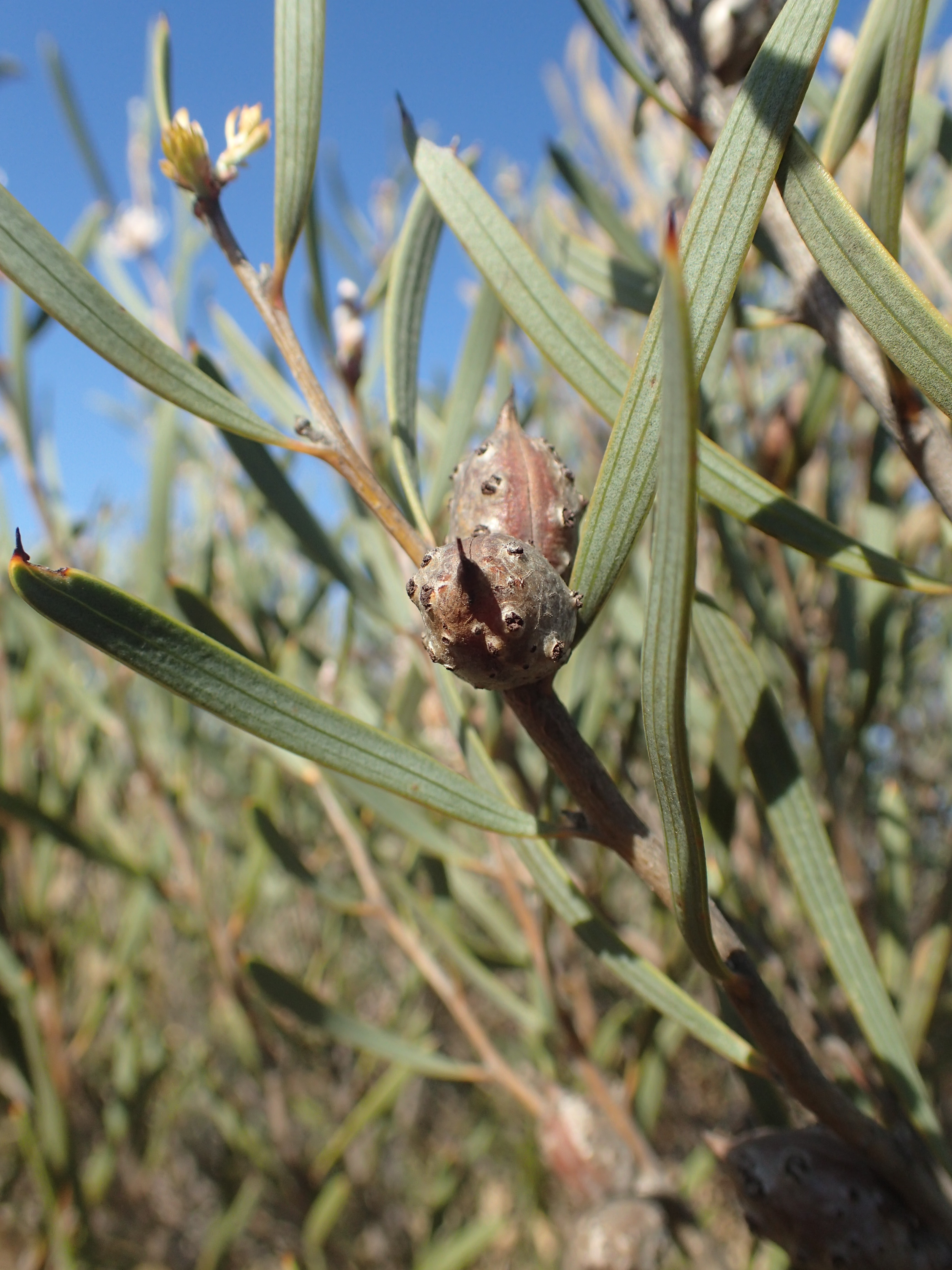 Hakea erecta fruit on a plant growing in Elphin Conservation Reserve near Wongan Hills